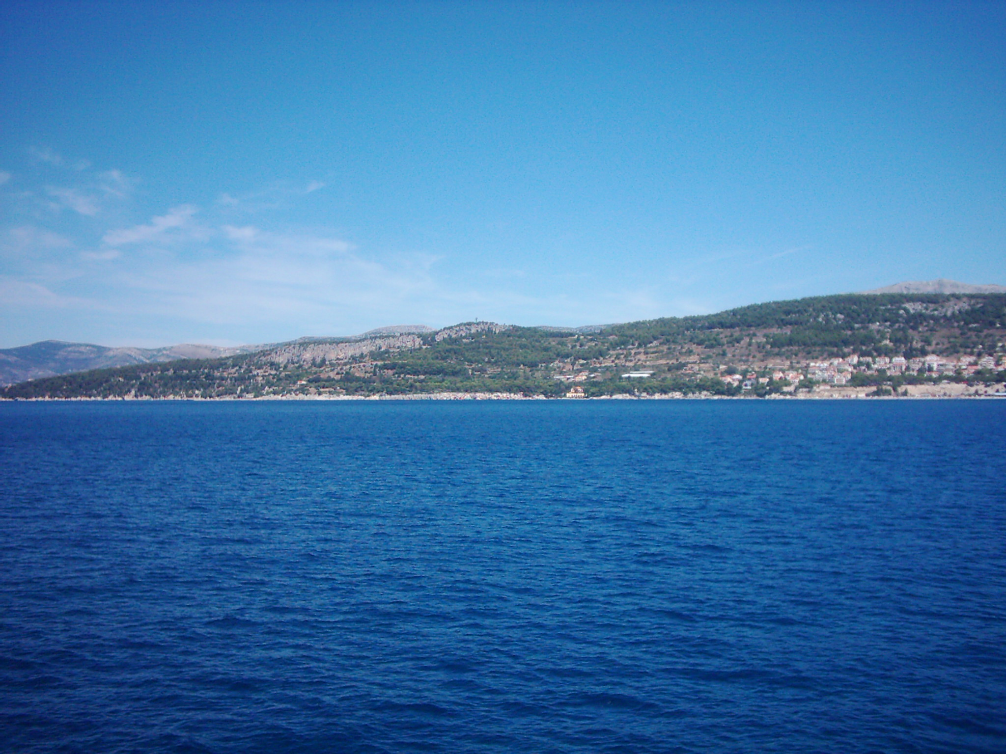 Adriatic Sea from a ferry near Split, Croatia.